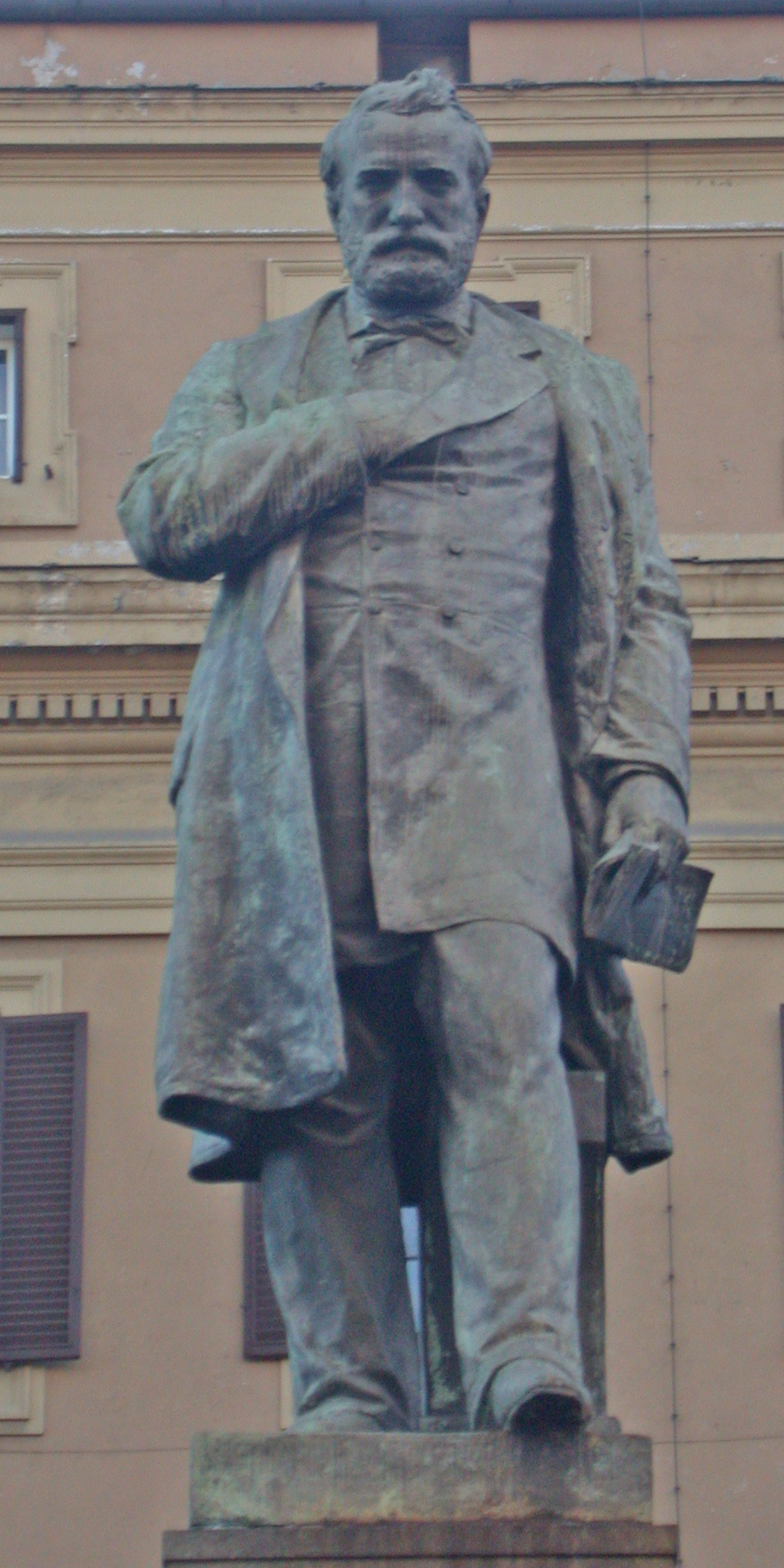 Quintino Sella, italian politician. Statue in front of Ministero delle Finanze, in Rome. Personal photo (august 2005) by MM in it.wiki